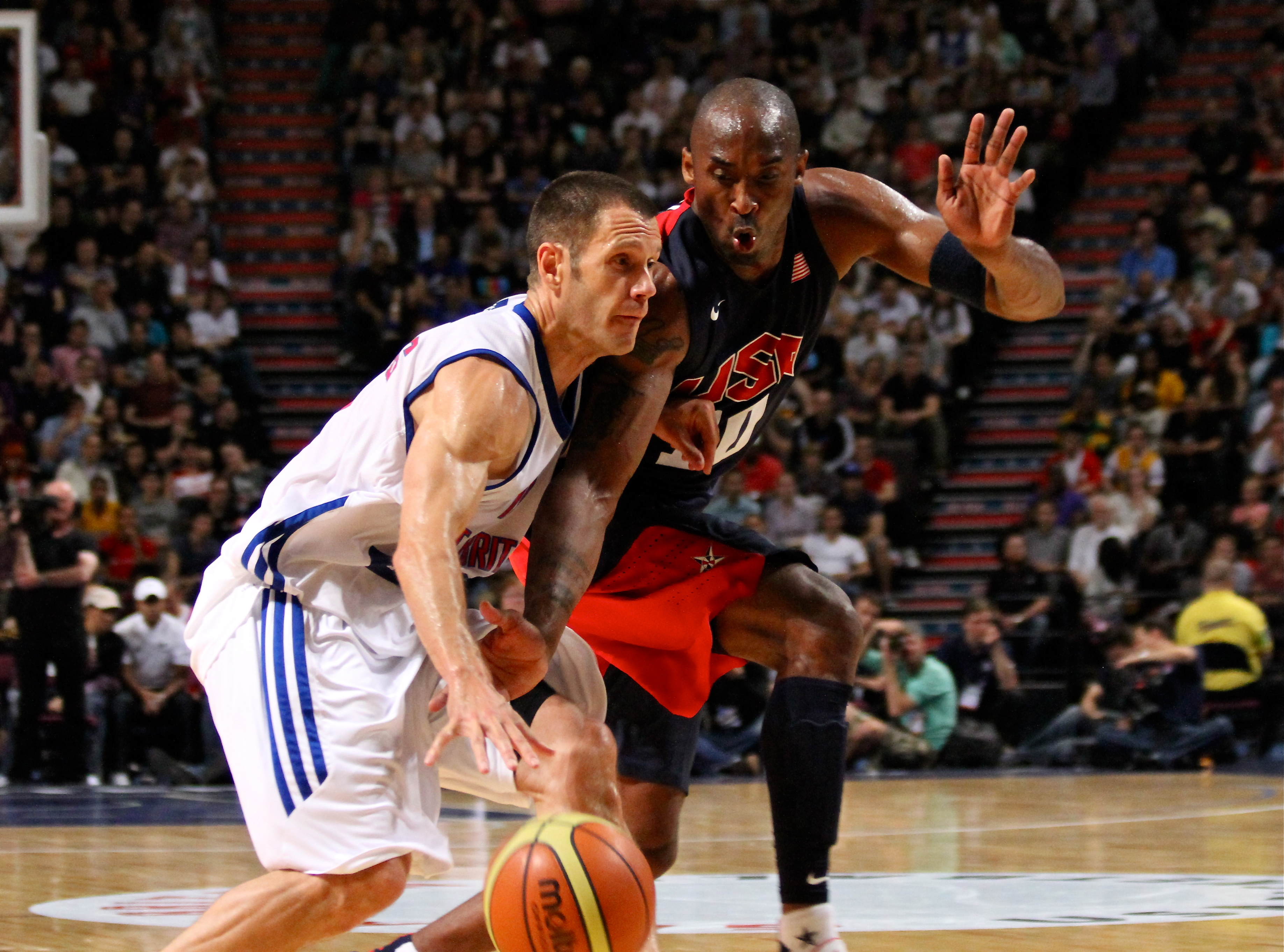 Nate Reinking of Great Britain defended by Kobe Bryant of the United States